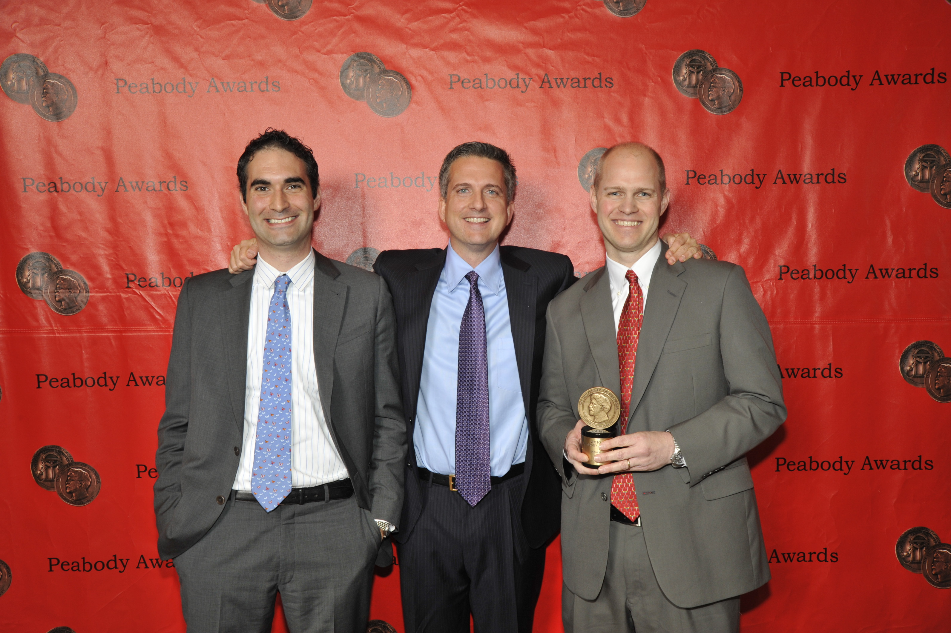 PHOTO CREDIT: ANDERS KRUSBERG / PEABODY AWARDS Connor Schell. Bill Simmons and John Dahl 70th Annual Peabody Awards Luncheon Waldorf=Astoria Hotel May 23, 2011